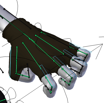 OpenGL render of the hand rig of the main character in the open source project Sintel. Made in Blender and the GIMP; simplified Sintel model by Ben Dansie.